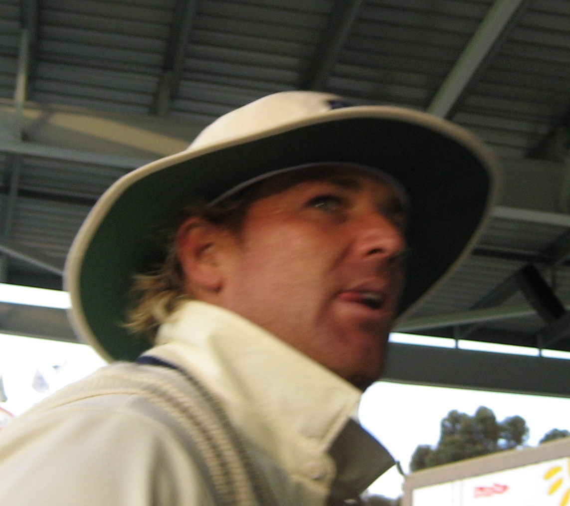 Shane Warne. At the WACA gound on 15/10/2006 Photo taken by me - user:Moondyne